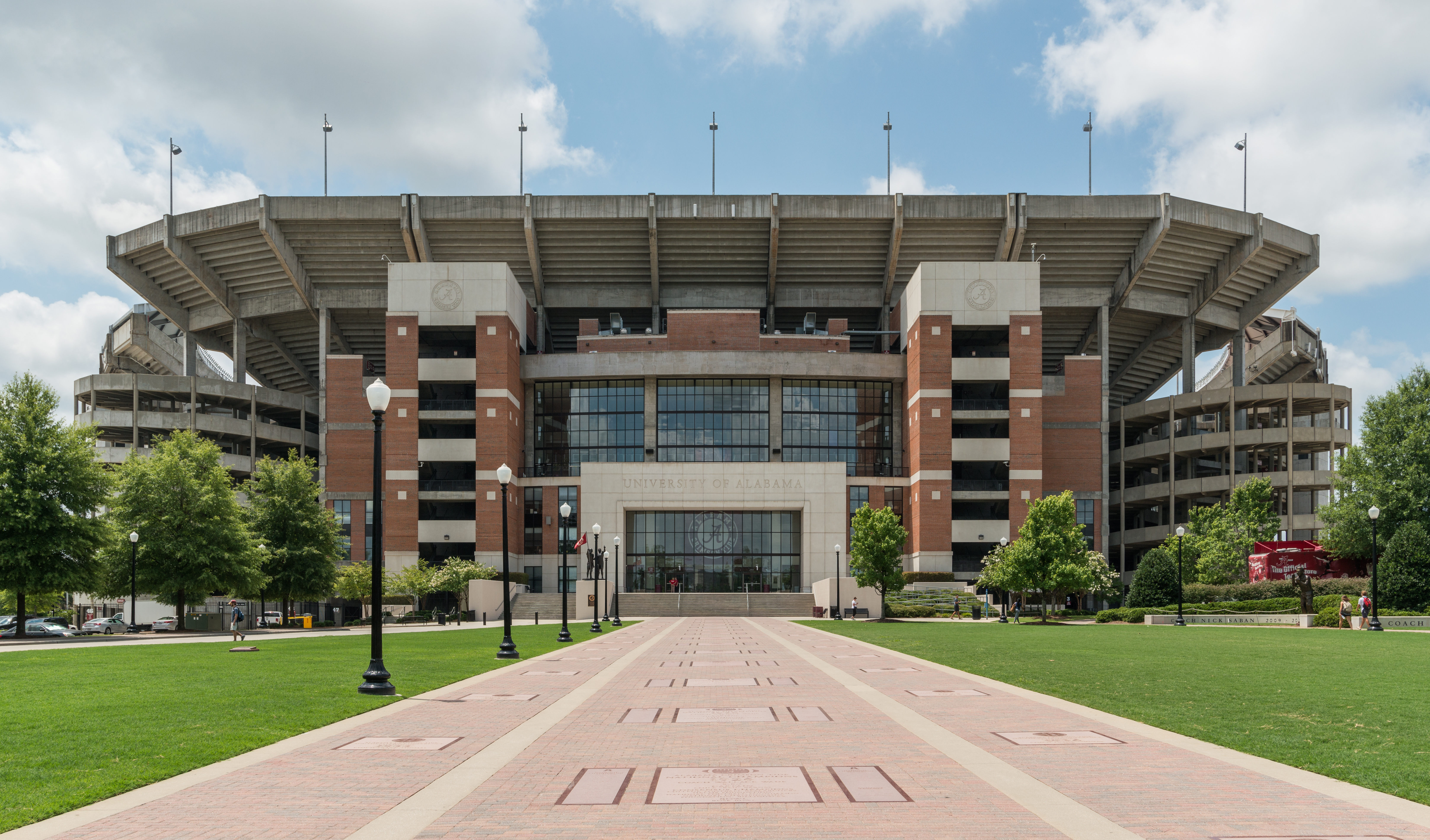 A north view of the Bryant–Denny Stadium, owned by the University of Alabama in Tuscaloosa